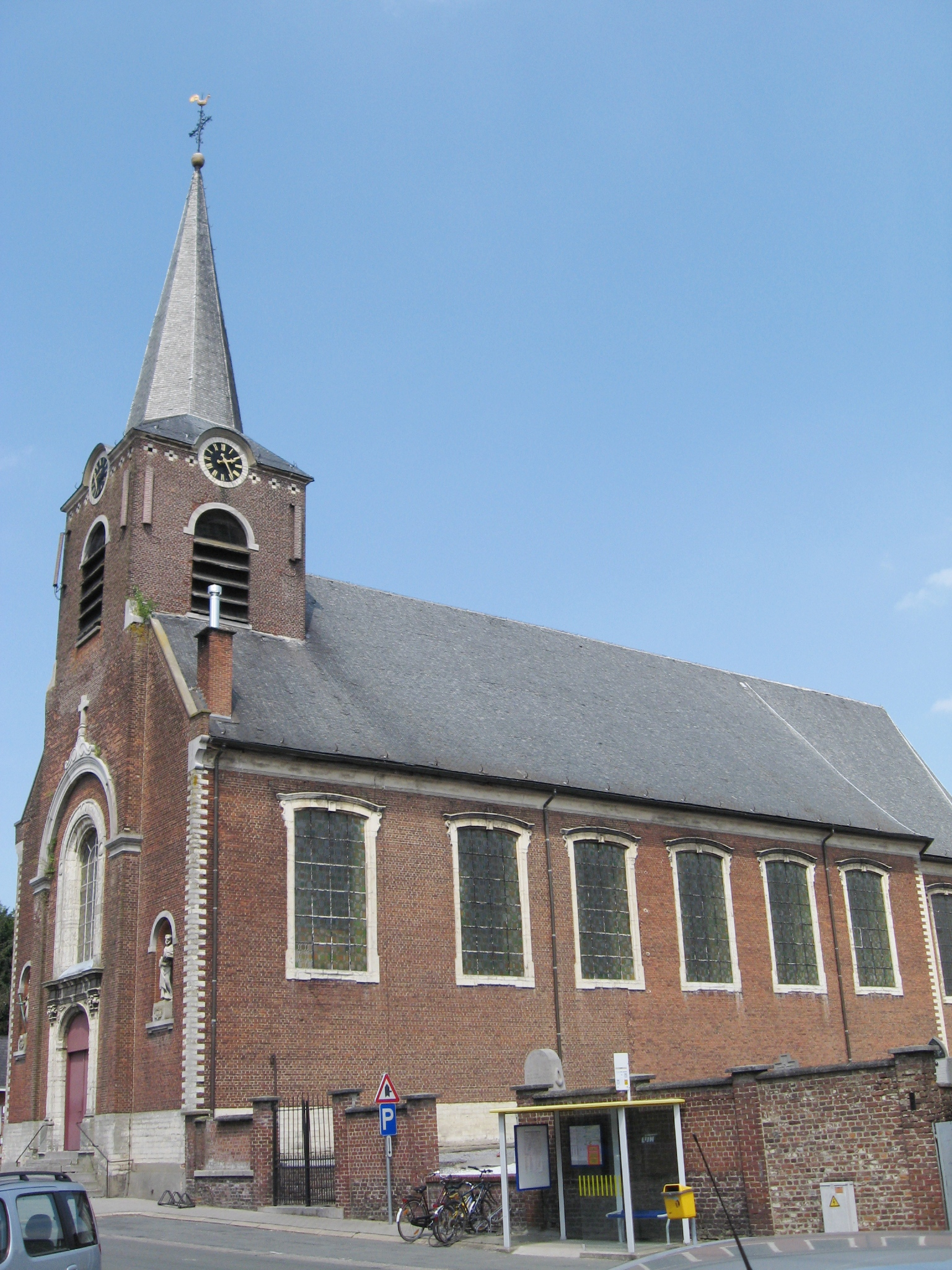 Church of Saint Peter and Paul in Geetbets, Flemish Brabant, Belgium